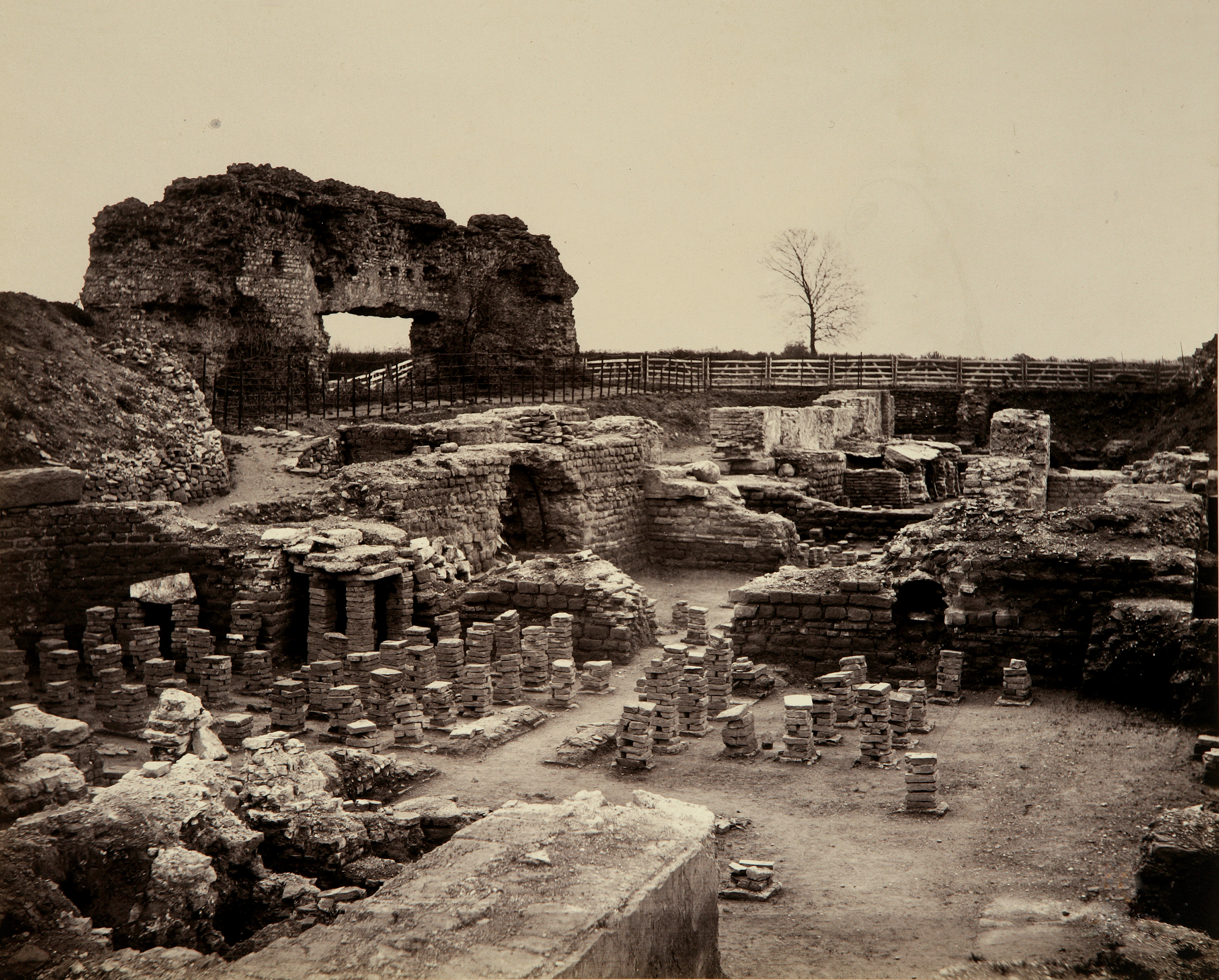 Excavation at Uriconium by Francis Bedford